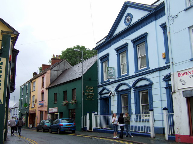 Quay Street, Havordfordwest, Wales